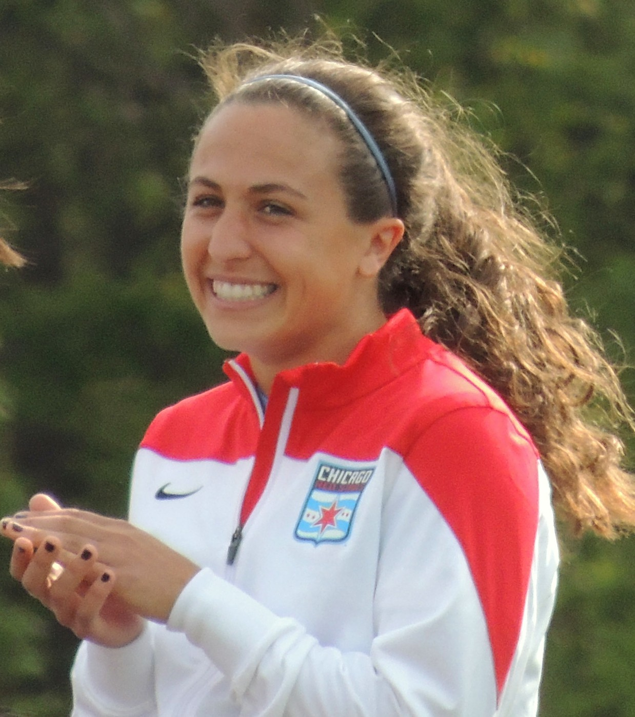 Danielle Colaprico playing for Sky Blue at Red Stars on May 2 2015